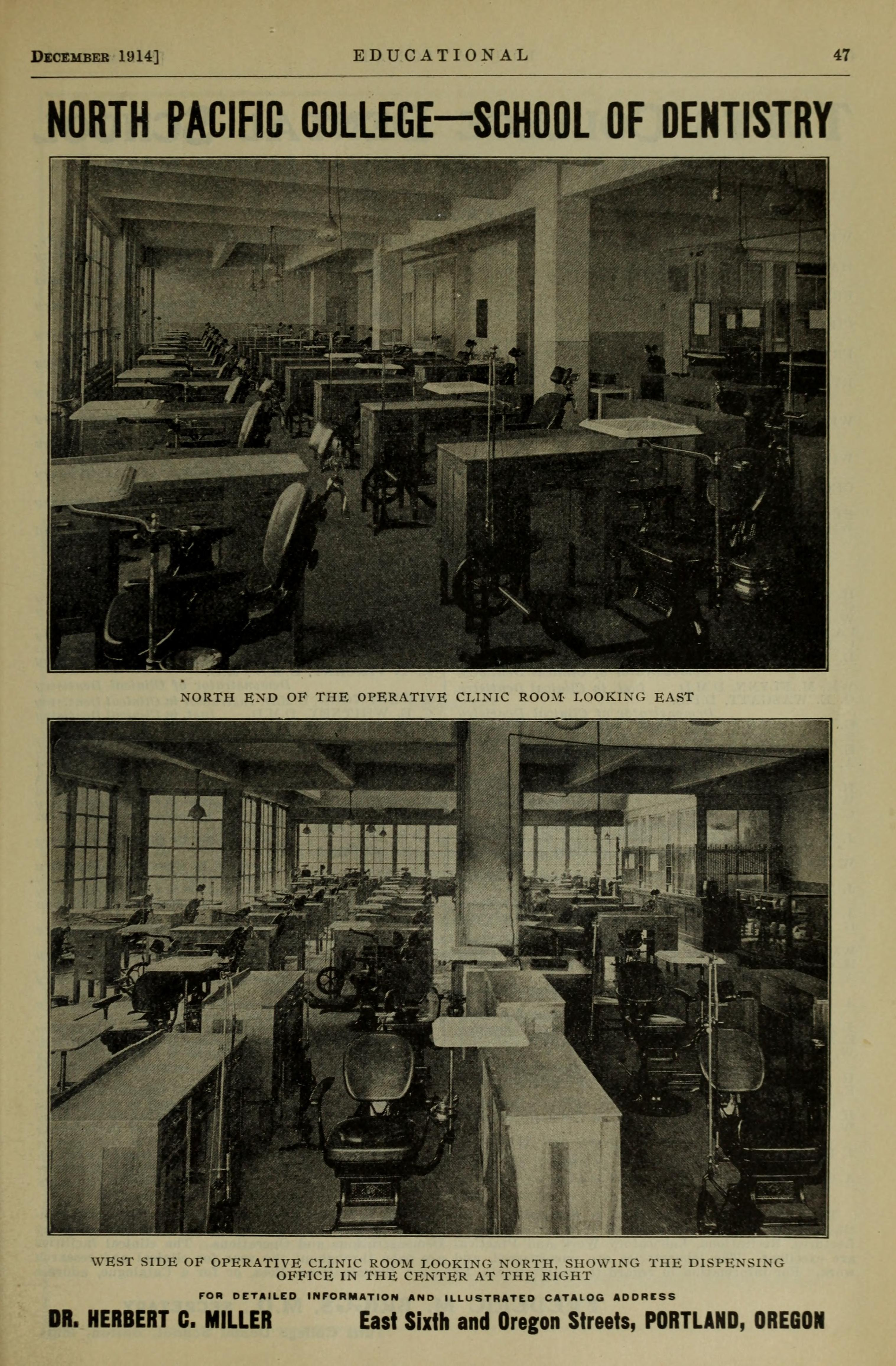 North Pacific College of Dentistry, Portland, Oregon, 1914 Title: The Dental cosmos Year: 1914 (1910s) Authors: White, J. D McQuillen, J. H. (John Hugh), 1826-1879 Ziegler, George Jacob, 1821-1895 White, James William, 1826-1891 Kirk, Edward C. (Edward Cameron), 1856-1933 Anthony, L. Pierce (Lovick Pierce), b. 1877 Subjects: Dentistry Dentistry Publisher: Philadelphia, S. S. White Dental Manufacturing Co Text Appearing Before Image: NORTH END OF THE OPERATIVE CLINIC ROOM- LOOKING EAST Text Appearing After Image: WEST SIDE OF OPERATIVE CLINIC ROOM LOOKING NORTH. SHOWING THE DISPENSINGOFFICE IN THE CENTER AT THE RIGHT FOB DETAILED INFORMATION AND ILLUSTRATED CATAIOG ADDRESS DR. HERBERT C. MILLER East Sixth and Oregon Streets, PORTLAND, OREGON 48 EDUCATIONAL (December 1914 Tufts College Dental School HUNTINGTON AVENUE, THE FENWAY. BOSTON. MASS. FACULTY WILLIAM LESLIE HOOPER, A.M., Ph.D., Acting PresidentHAROLD WILLIAMS, A.B., M.D., LL.D. Dean andProfessor of the Theory and Practice of MedicineFREDERIC MELANCTHOI, BRIGGS, A.B., M.D. Secretary and Professor of SurgeryCHARLES ALFRED PITKIN, A.M., Ph.D. Professor of ChemistryFRANK GEORGE WHEATLEY. A.M., M.D. Professor of Materia Medica and TherapeuticsBYRON HOWARD STROUT, D.D.S. Professor of Operative Technics and Instructor inAnesthesia WILLIAM ELISHA CHENERY, A.B., M.D. Professor of Diseases of the Nose and Throat andInstructor in Oral SyphilisWILLIAM RICE, D.M.D. Assistant Professor of Clinical DentistryGEORGE ANDREW BATES, M.Sc, D.M.D. Professor